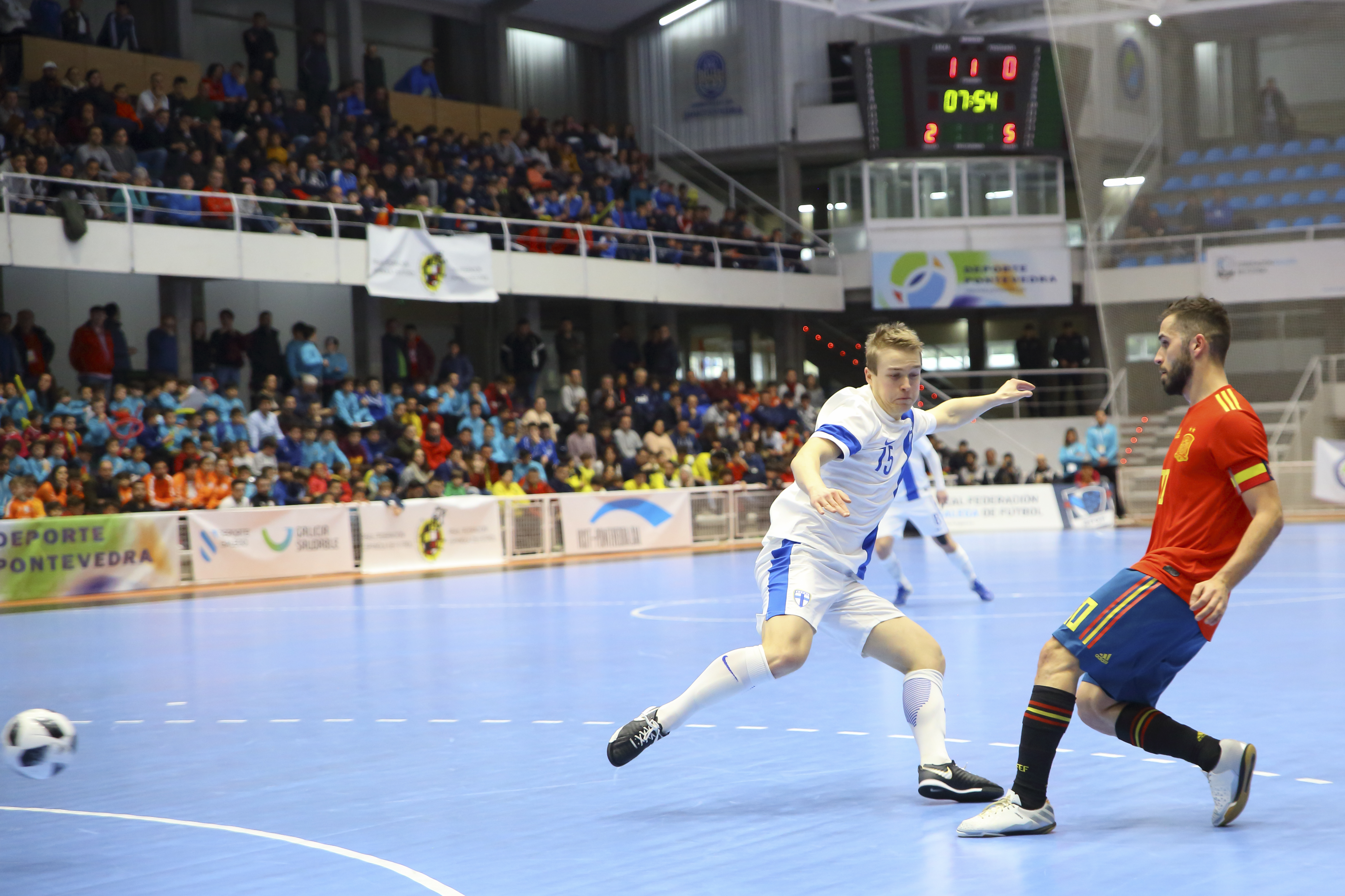 Futsal international friendly match between Spain and Finland at Pabellon Municipal de Pontevedra on April 2, 2018 in Pontevedra, Spain.